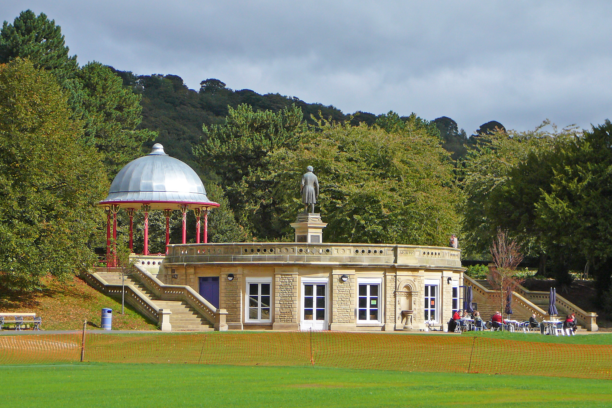 Roberts Park in Saltaire, Bradford, West Yorkshire. Taken on Saturday the 25th of September 2010.